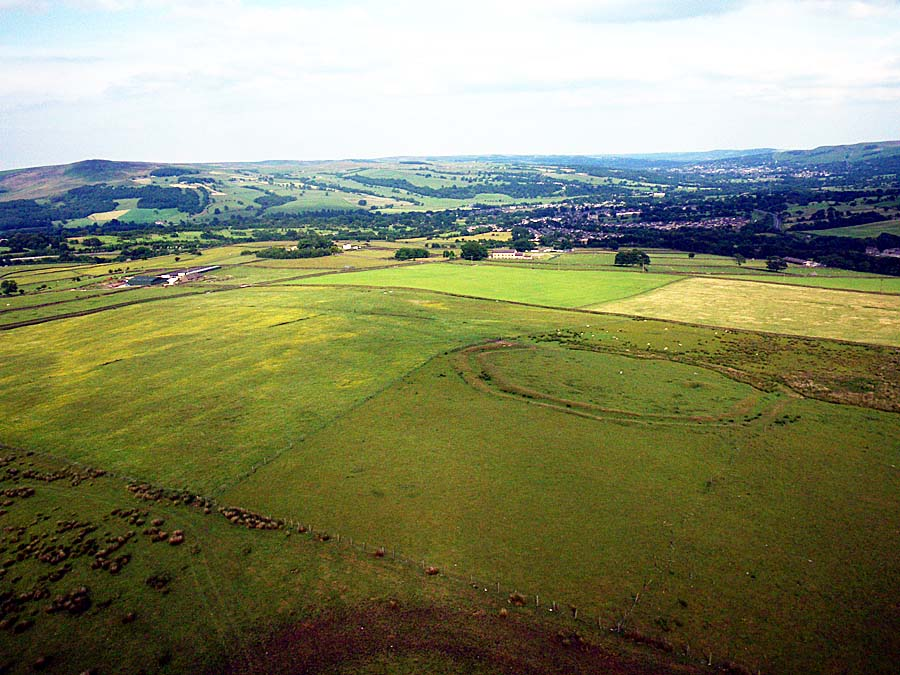 Kite aerial photo of Round Dykes Camp on Addingham Low Moor.